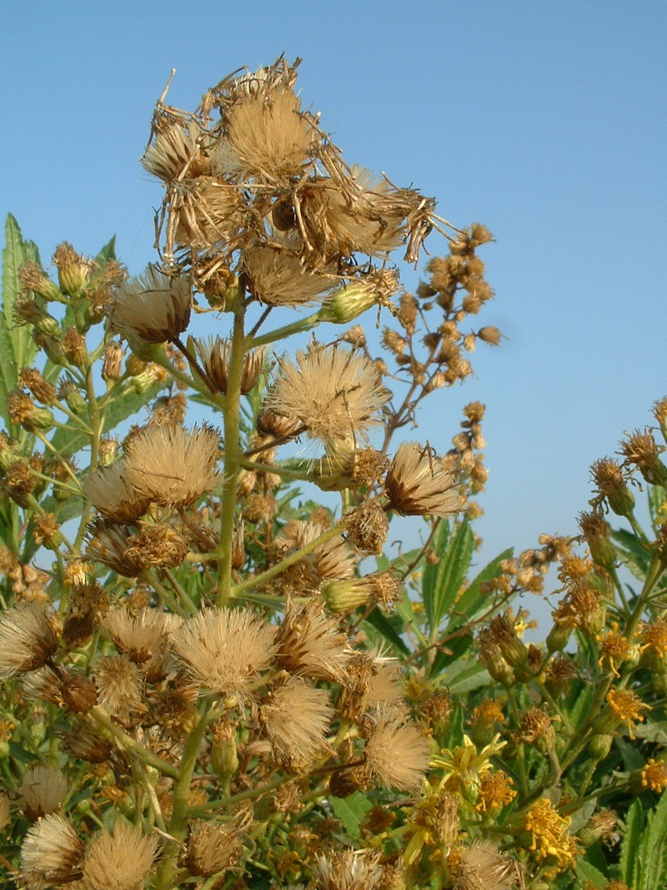 Lesser elecampane (Inula viscosa) seed heads. Photographed by myself in December 2005, with Fuju FinePix 2650 camera.